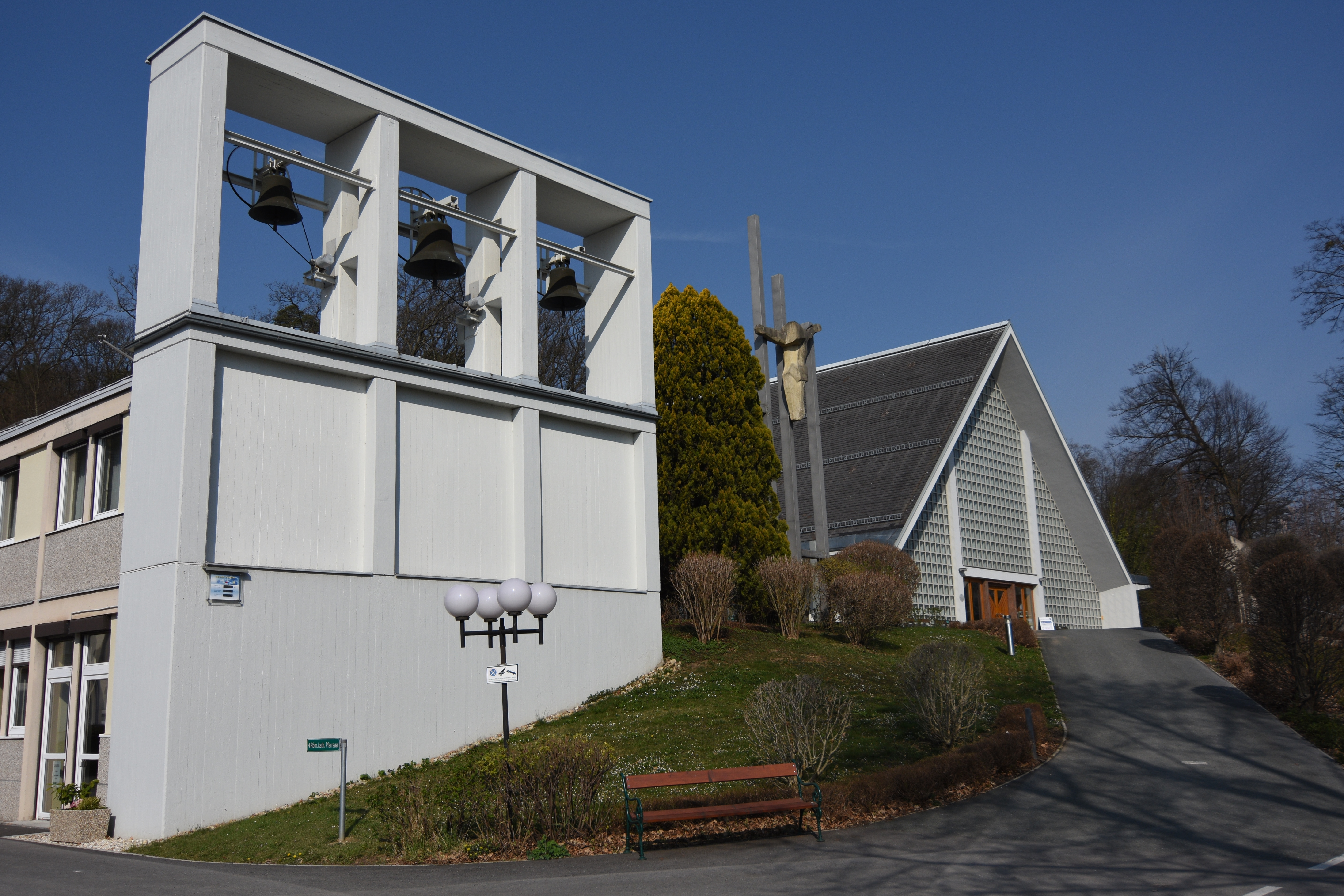 Church Bell hl. Johannes der Täufer, Bad Tatzmannsdorf